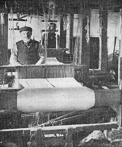 Alexander (Sandy) Ogilvie (1791-1871) at his loom in his shop in Land Street, Keith, Moray, Scotland. Scan by me of 1860s photo on page 29 of the booklet "Recollections of Keith" published in the 1920s. Duncanogi (talk) 18:02, 28 July 2009 (UTC)